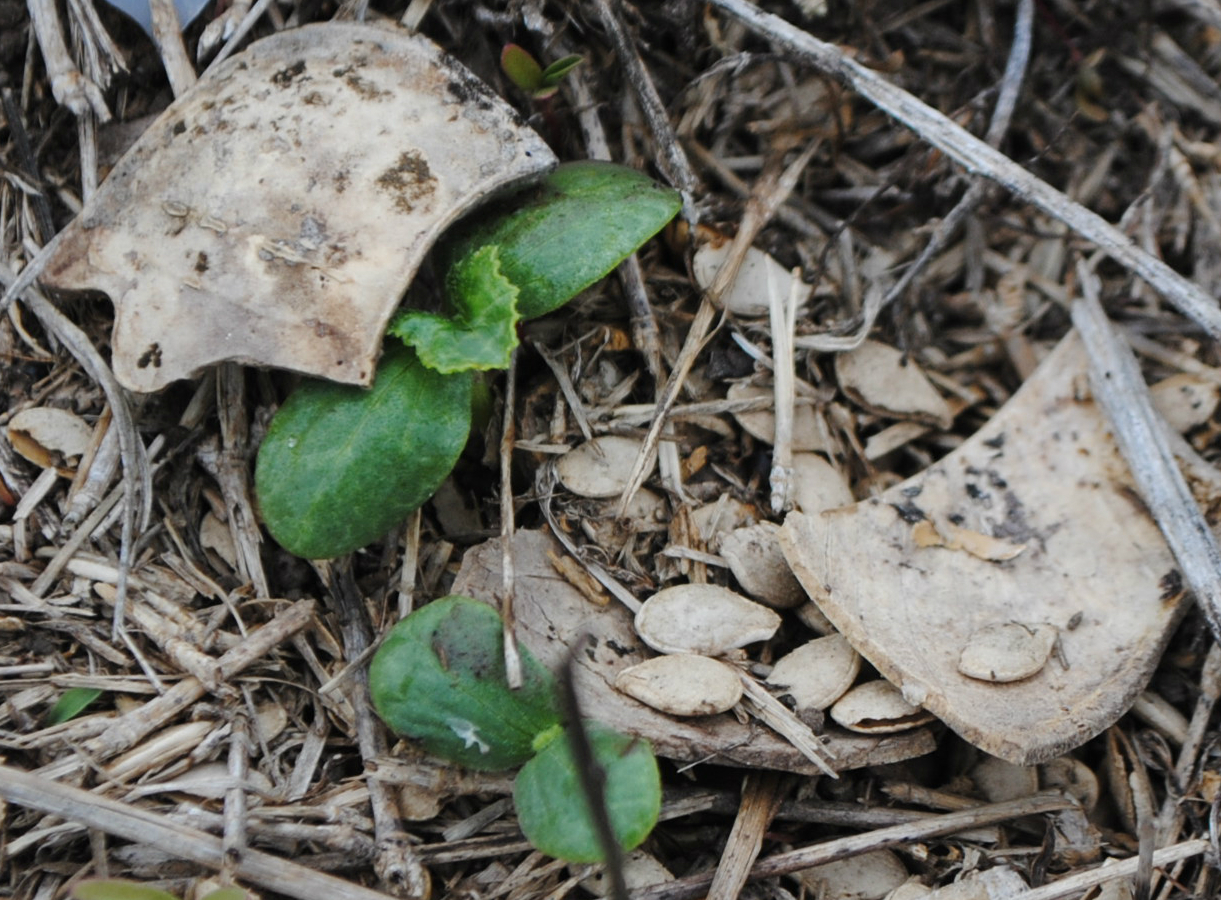 Original description: Cucurbita maxima subsp. andreana emerging plants from previous season crushed fruit, 22 october 2011, site Zavalla, Argentina.